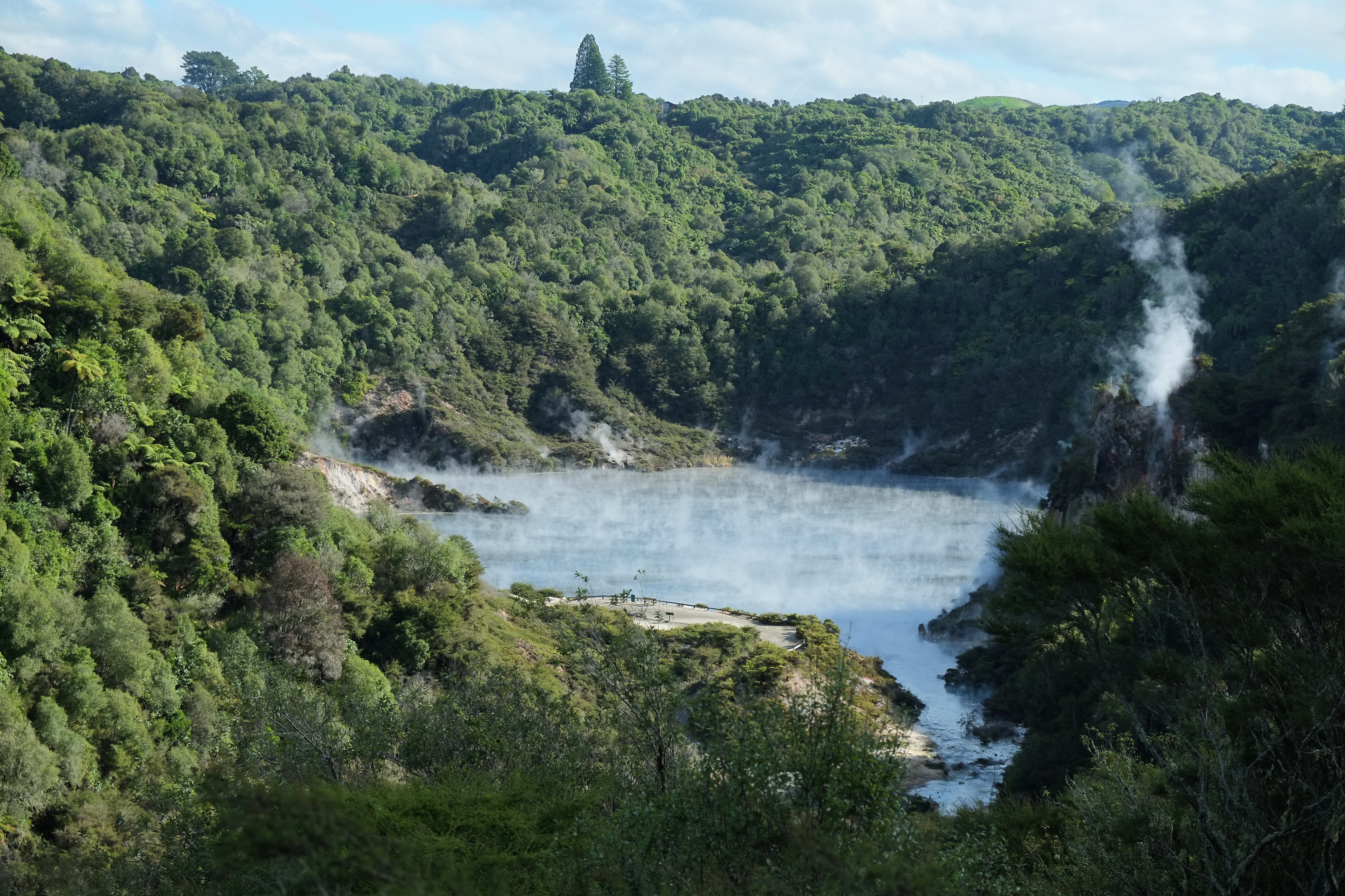 View over Echo Crater and Frying Pan Lake in Waimangu Volcanic Valley